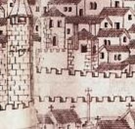 Muralhas da cidadela